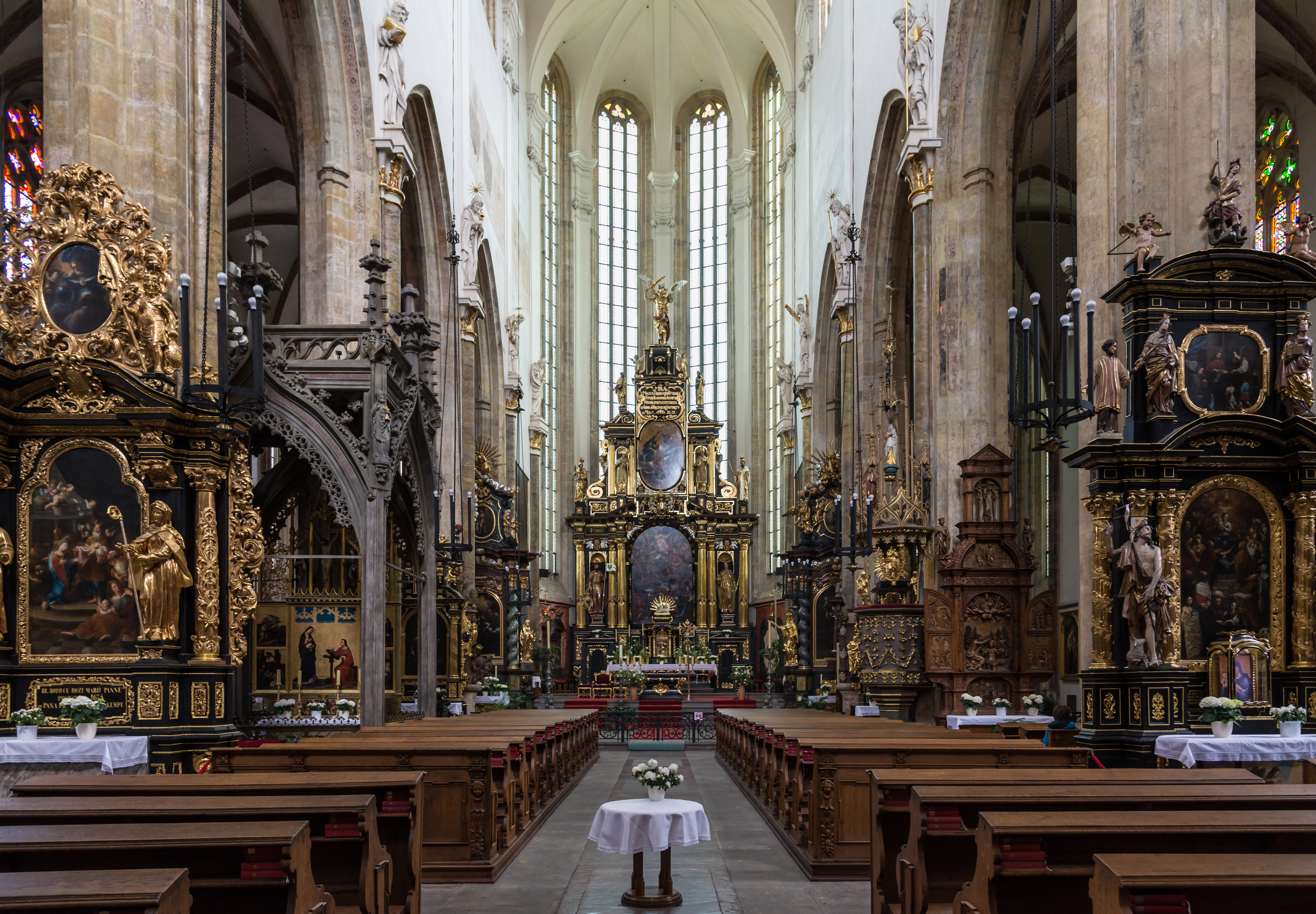 Interior of Týn Church (in Czech Kostel Matky Boží před Týnem, also Týnský chrám) in the Old Town of Prague, Czech Republic